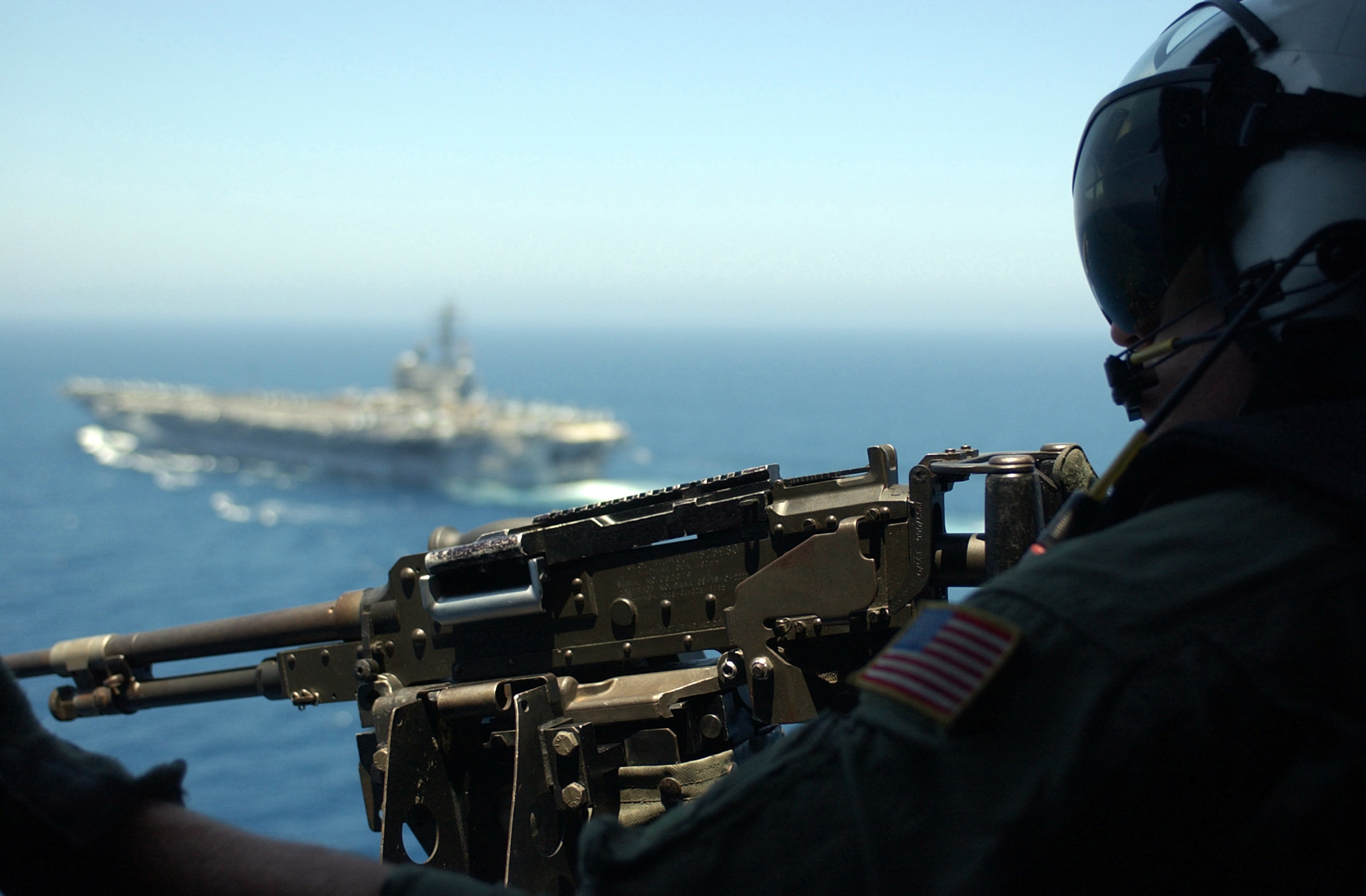 Pacific Ocean (July 21, 2005) - Aviation Warfare Systems Operator 3rd Class Garrette Keller assigned to the "Black Knights" of Helicopter Anti-Submarine Squadron Four (HS-4) mans a M240D machine gun aboard an SH-60 Seahawk while acting as plane guard for USS Ronald Reagan (CVN 76). The Nimitz-class aircraft carrier and embarked Carrier Air Wing One Four (CVW-14) are underway conducting Tailored Ships Training Availability (TSTA). U.S. Navy Photo by Photographer's Mate 3rd Class Christopher Brown (RELEASED)